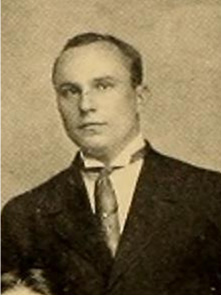 L. W. Riess